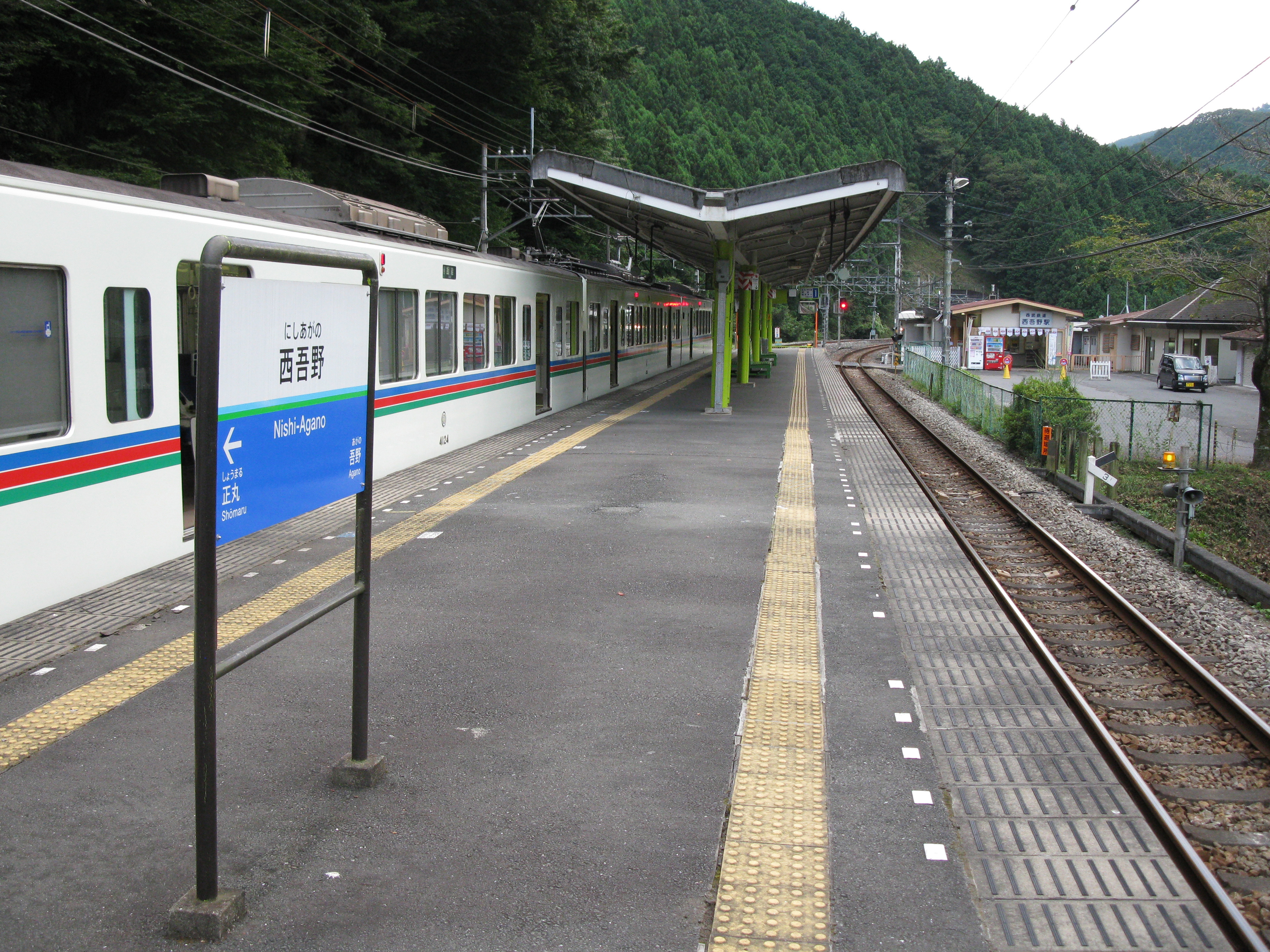 Nishi-Agano Station platform (Seibu Railway Seibu Chichibu Line)